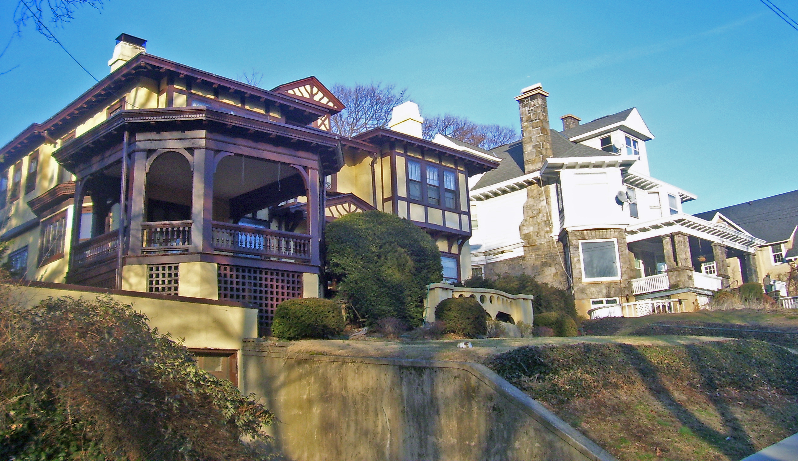 Houses built by Charles Otis (left) and Griffith North in Yonkers, NY, USA, in the first decade of the 20th century. Today they are contributing properties to the Delavan Terrace Historic District